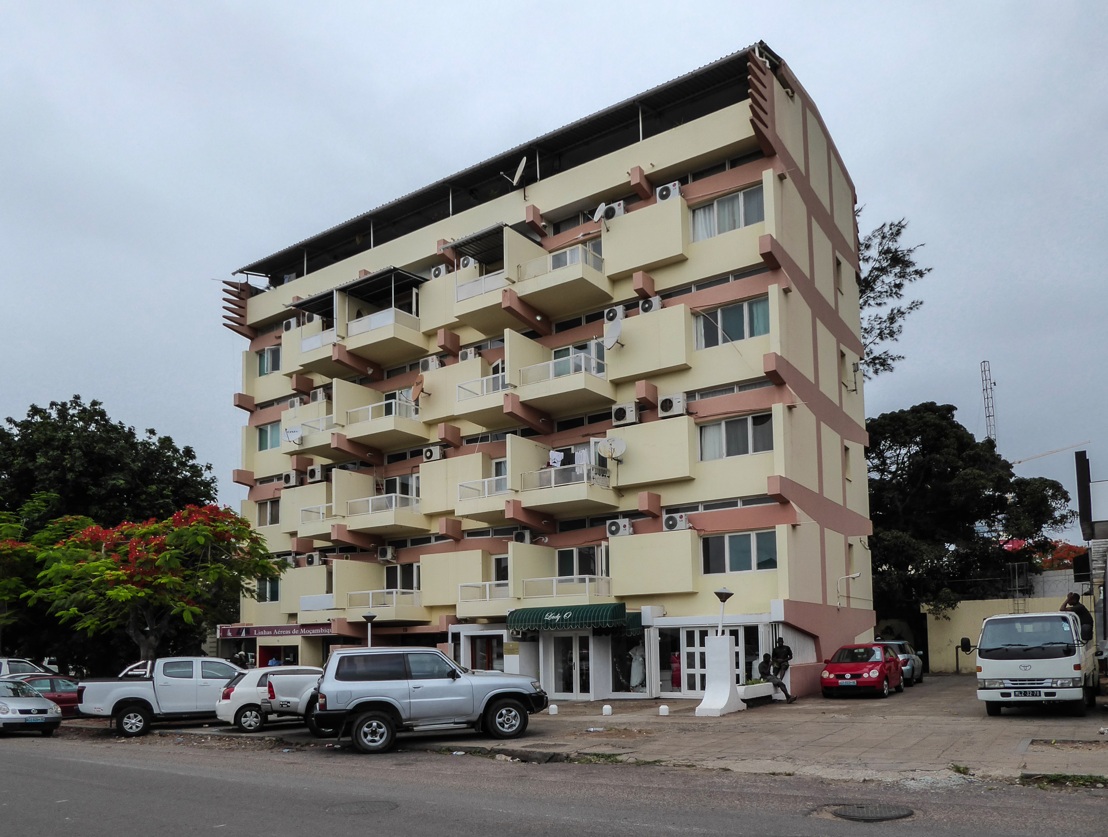 Prometheus building, by Pancho Guedes, Maputo, Mozambique